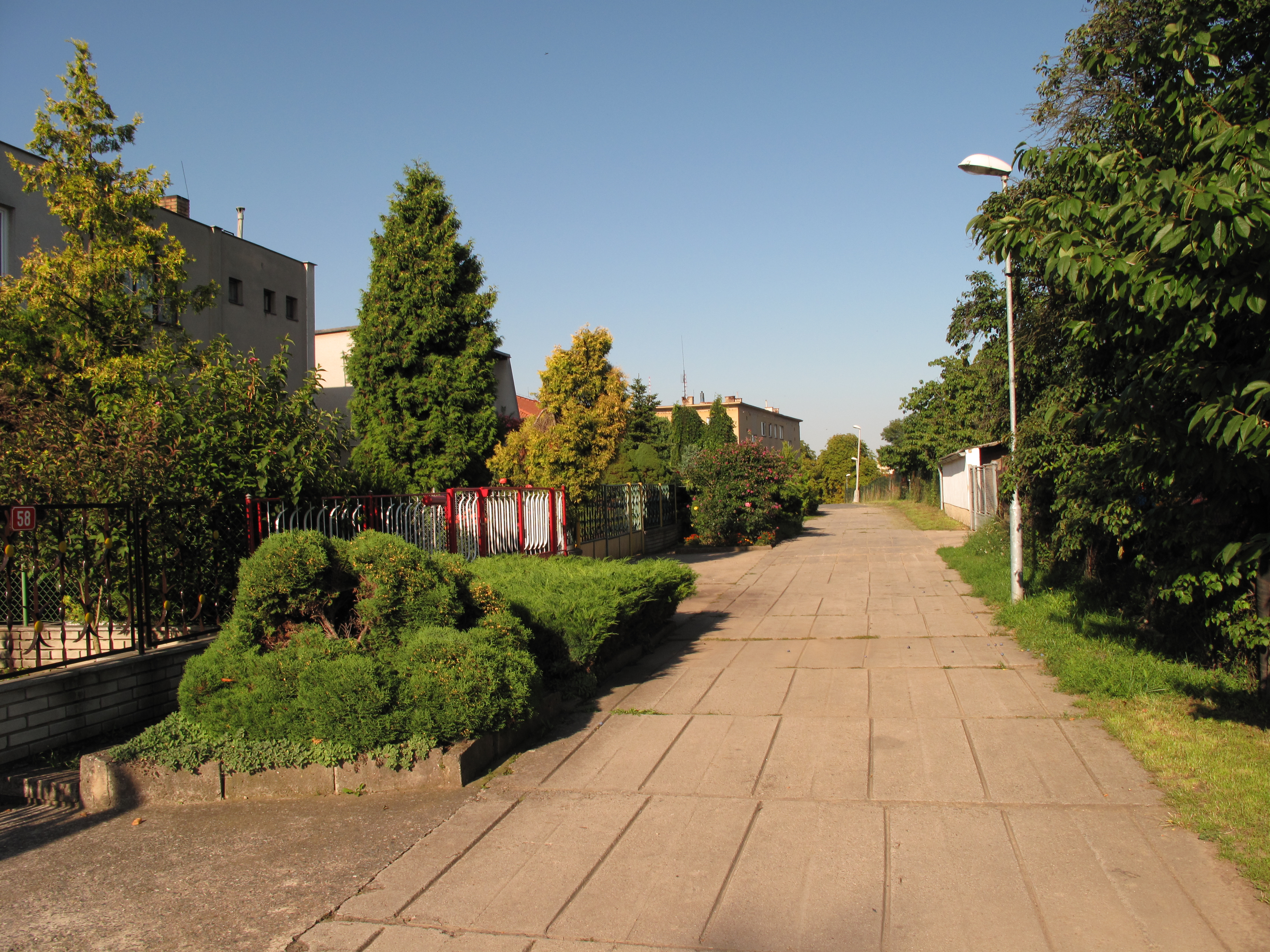 Concrete train within houses in Chrášťany village, Kolín District, Czech Republic.